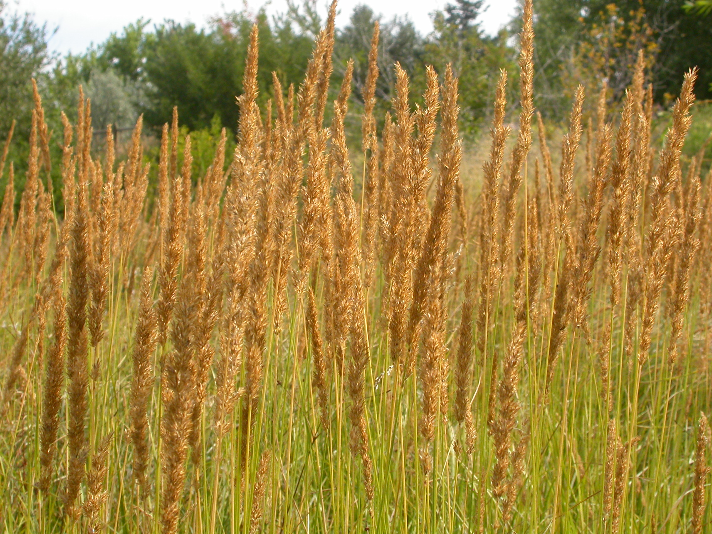 Calamagrostis stricta. The rusty brown narrow inflorescence are rendered conspicuous by the often large numbers of flowering stalks within a single stand.